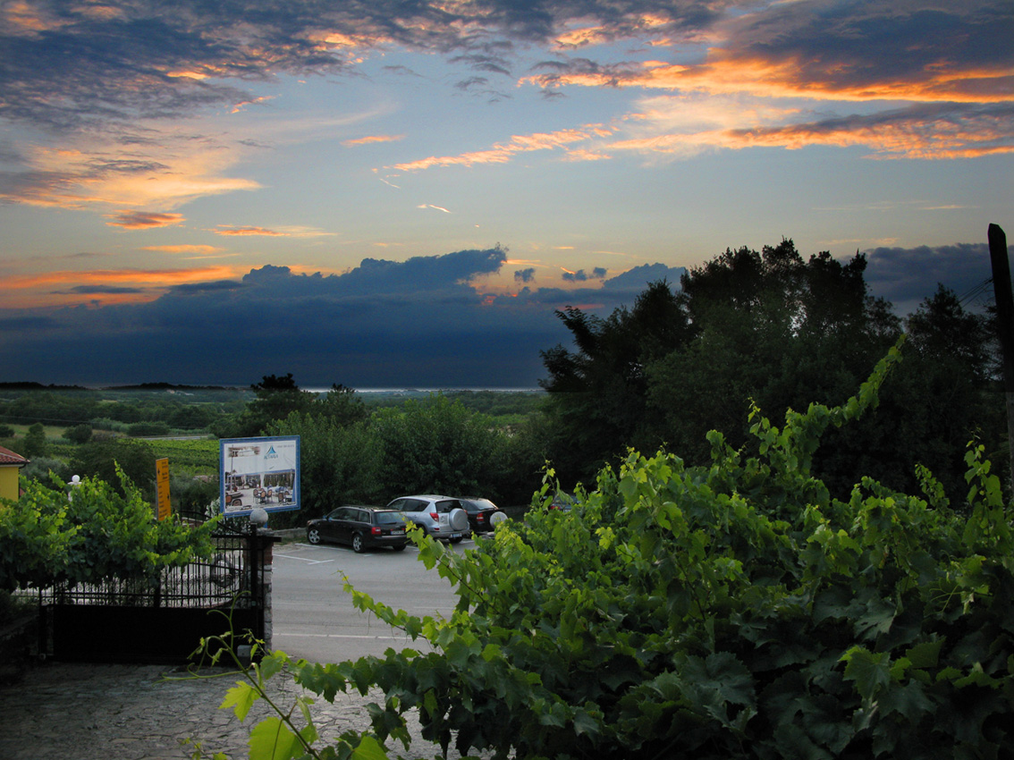 View from the rest. Astarea, Brtonigla, Croatia